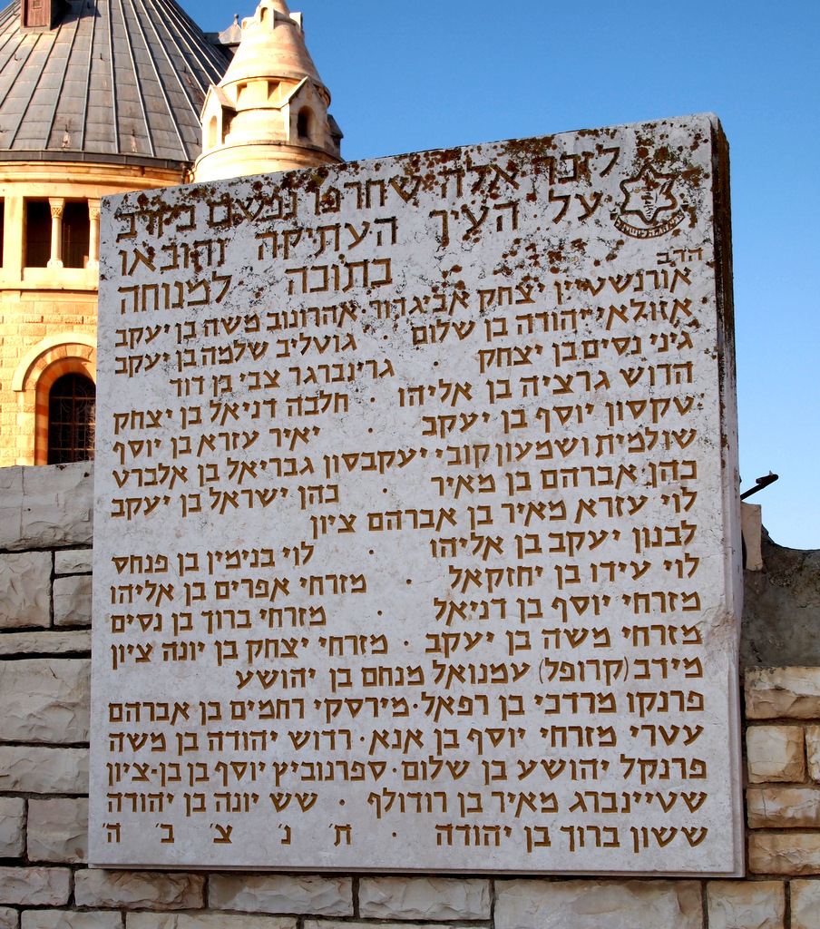 Jerusalem, Mount Zion - this place is on the roof terrace above the Cénacle.